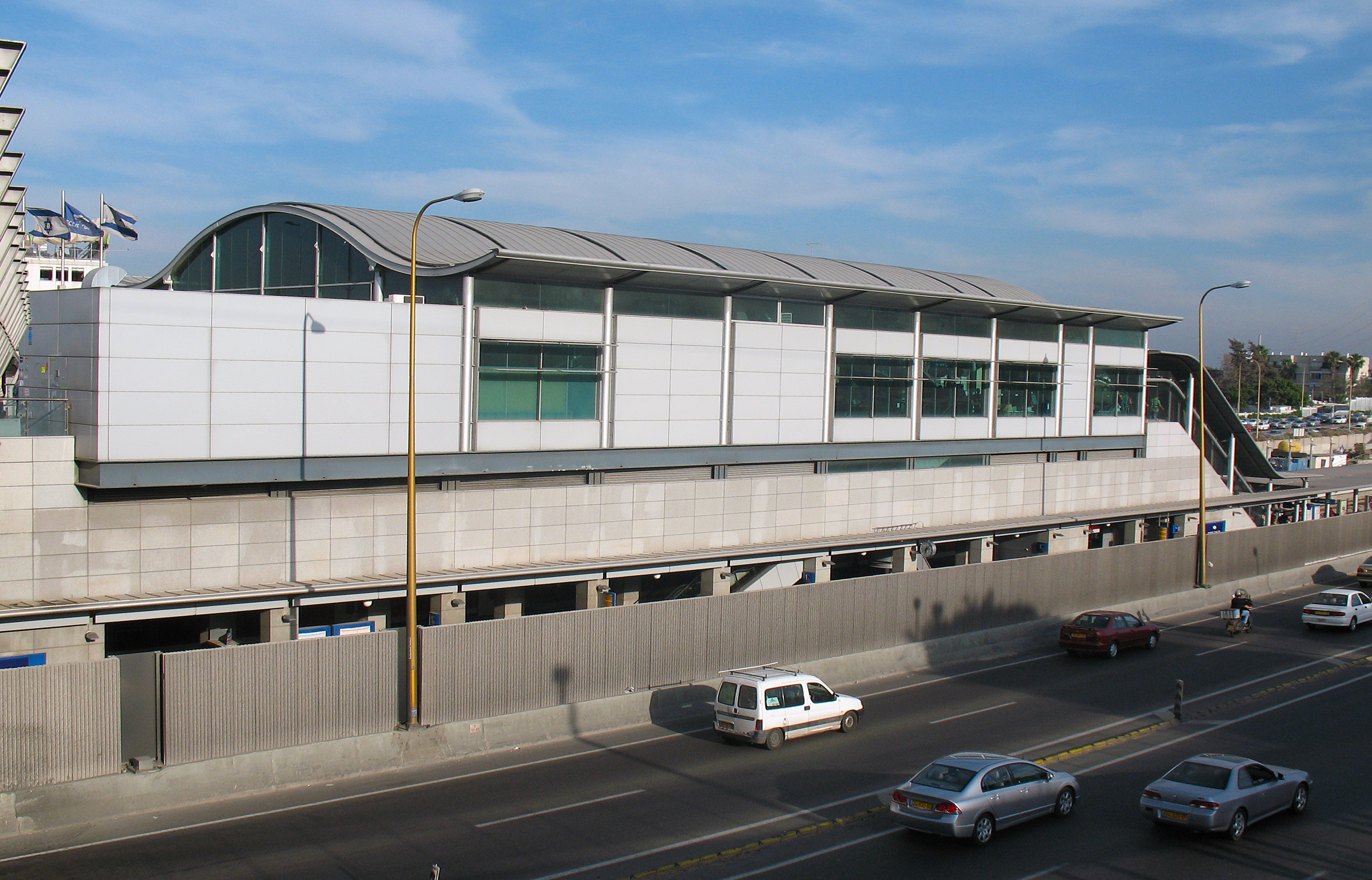 Tel Aviv HaHagana Railway Station in 2007.